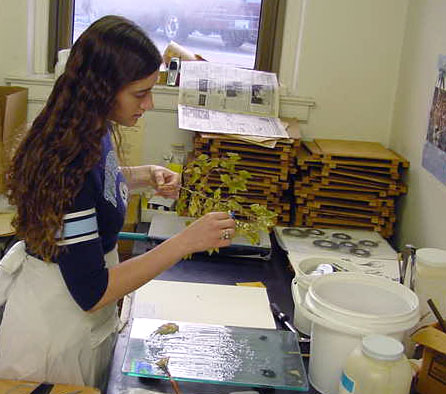 Taken by Jennifer Cross at the Texas A&M University Herbarium. Subject is Krista Cole, who has given permission for her image to be used specifically for this website.